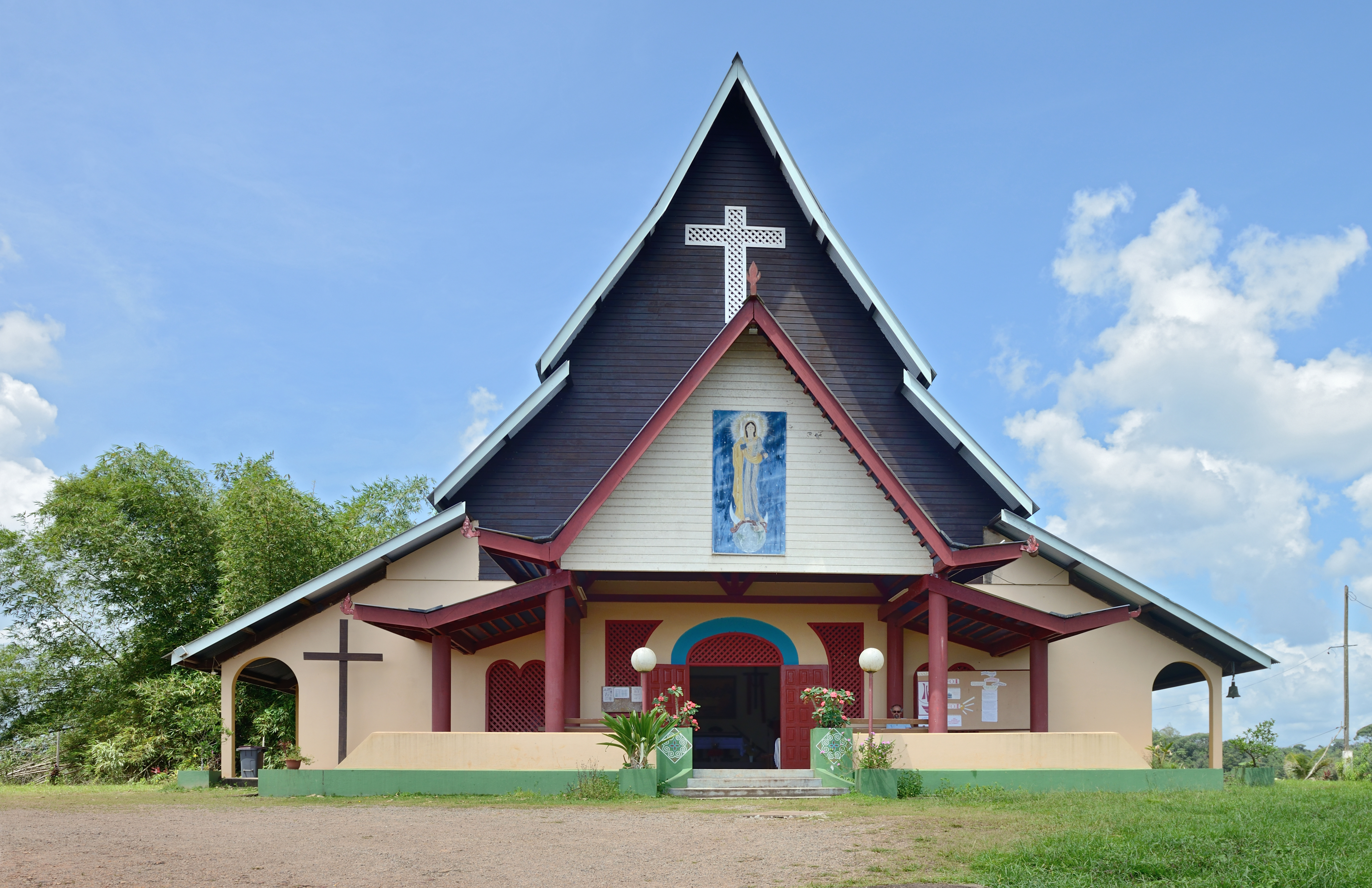 French Guiana: the church at Cacao.